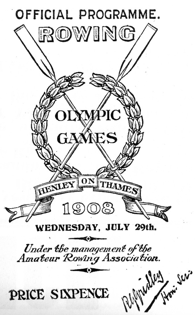 Olympic rowing program cover, Henley-on-Thames, July 29, 1908